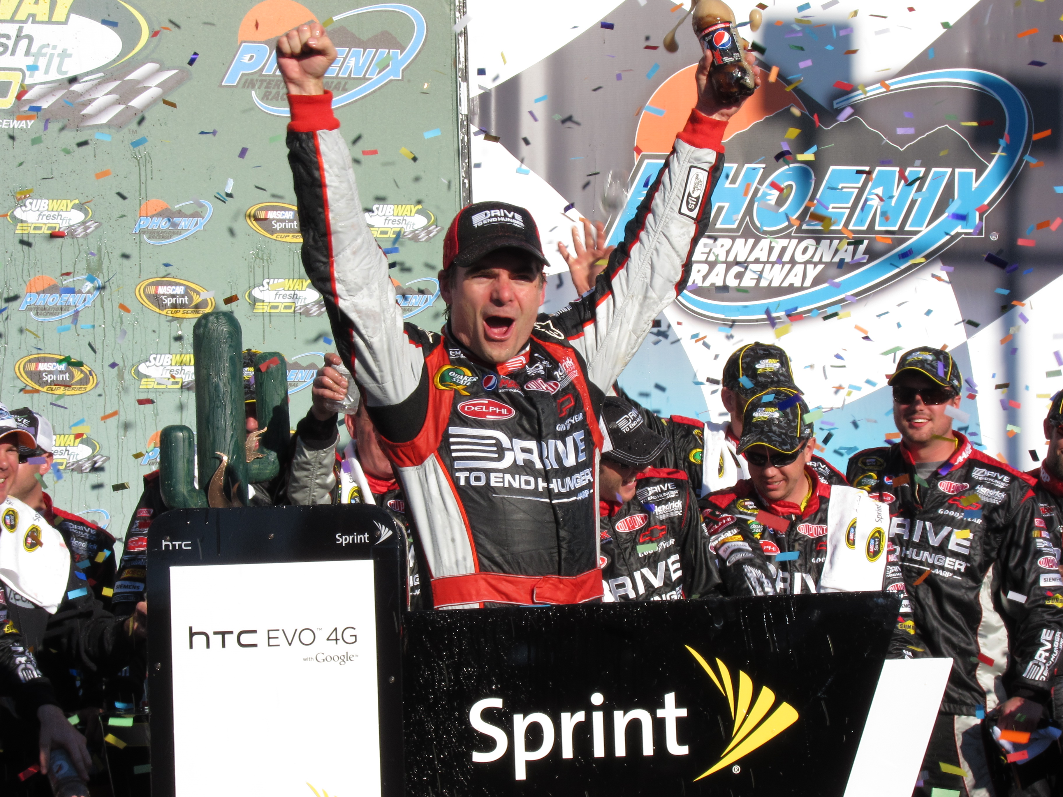 Jeff Gordon with the Subway Fresh Fit trophy in Victory Lane. Photo by Jordan McNerney, AARP.